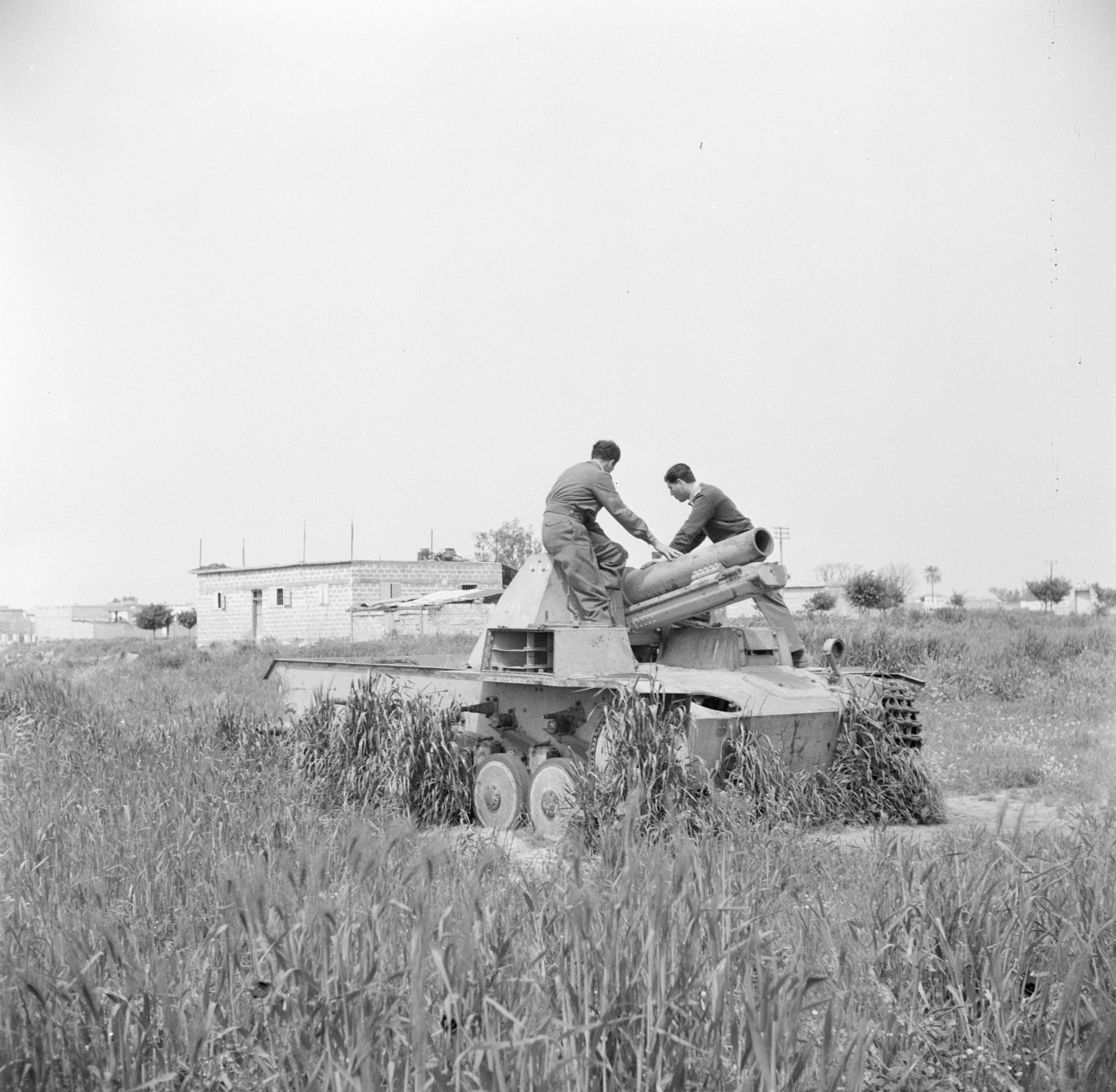 Two Israelis on a tank captured on the Egyptian army Annotation: Ashkelon was rebuilt in 1949 after the withdrawal of the Egyptian army on the remains of the Palestinian city of Al-Majdal